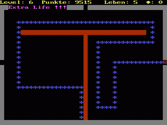 The late-eighties CGA-version of Snake